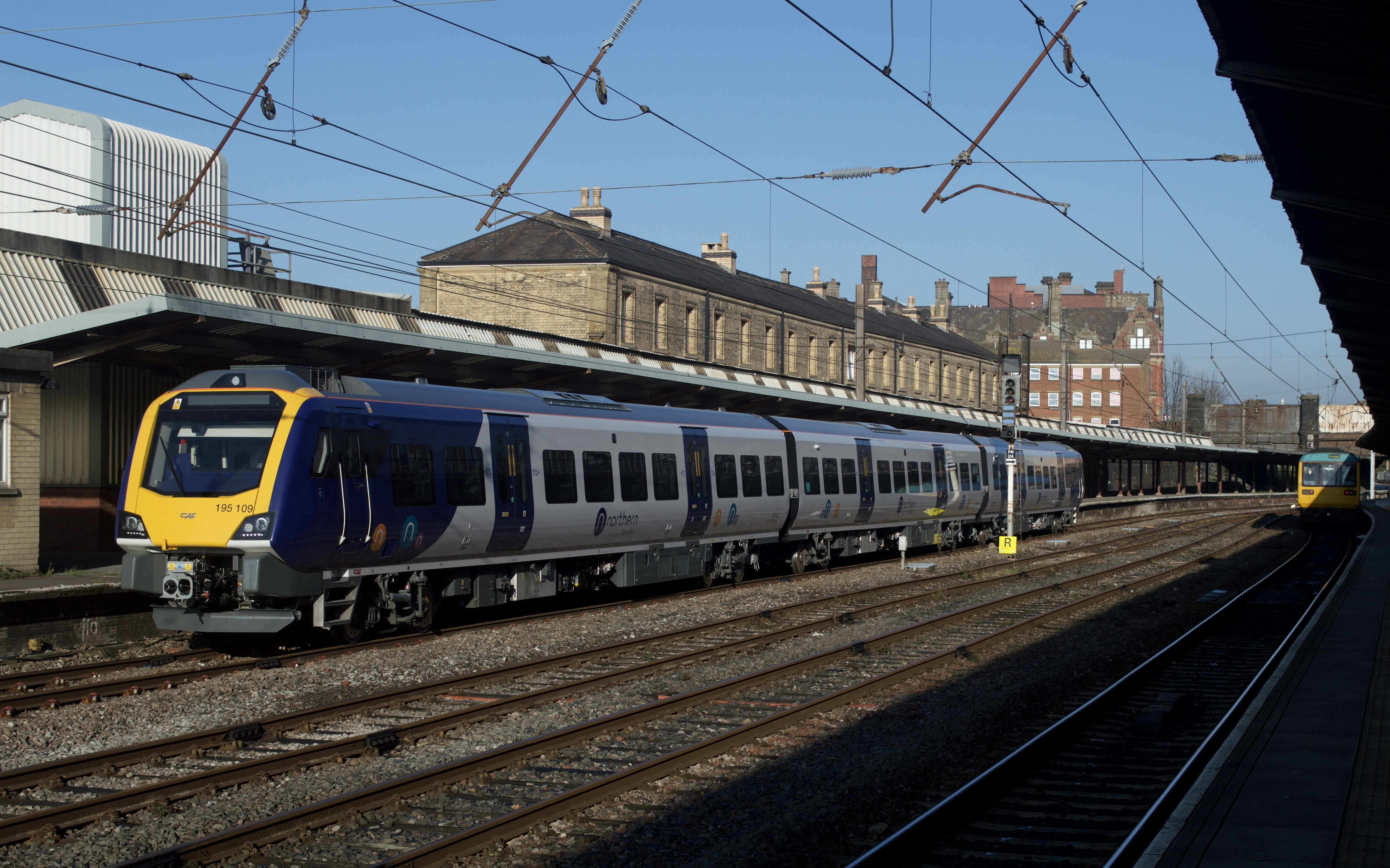 Brand new and still undergoing test is one of Northern Rail's new class 195 3-car DMUs seen at Preston on 15 November 2018.